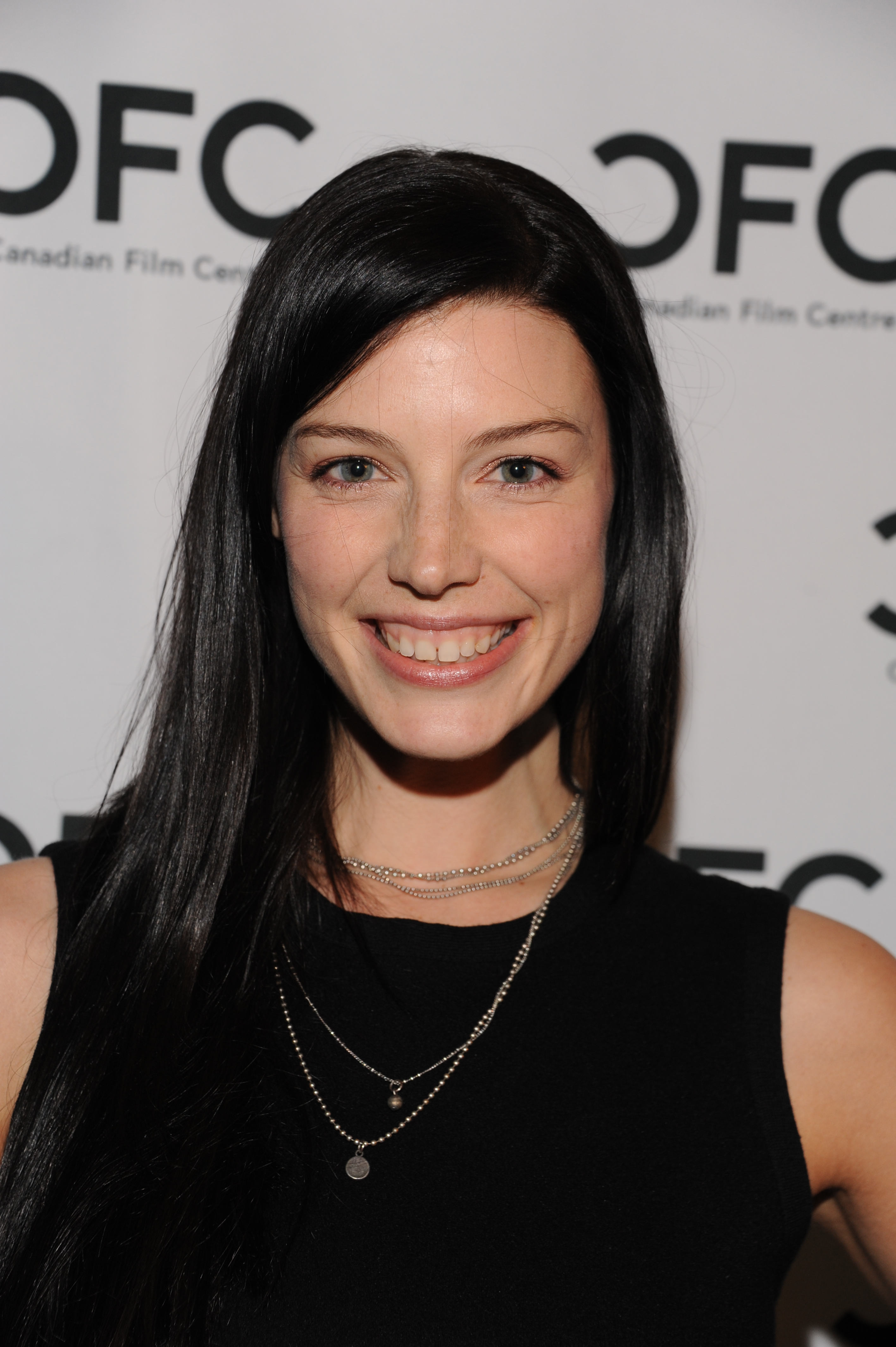 Jessica Paré at a Canadian Film Centre & Variety-hosted reception for the Telefilm Canada Features Comedy Lab. To learn more about the Canadian Film Centre, please visit: Photo by Mark Sullivan